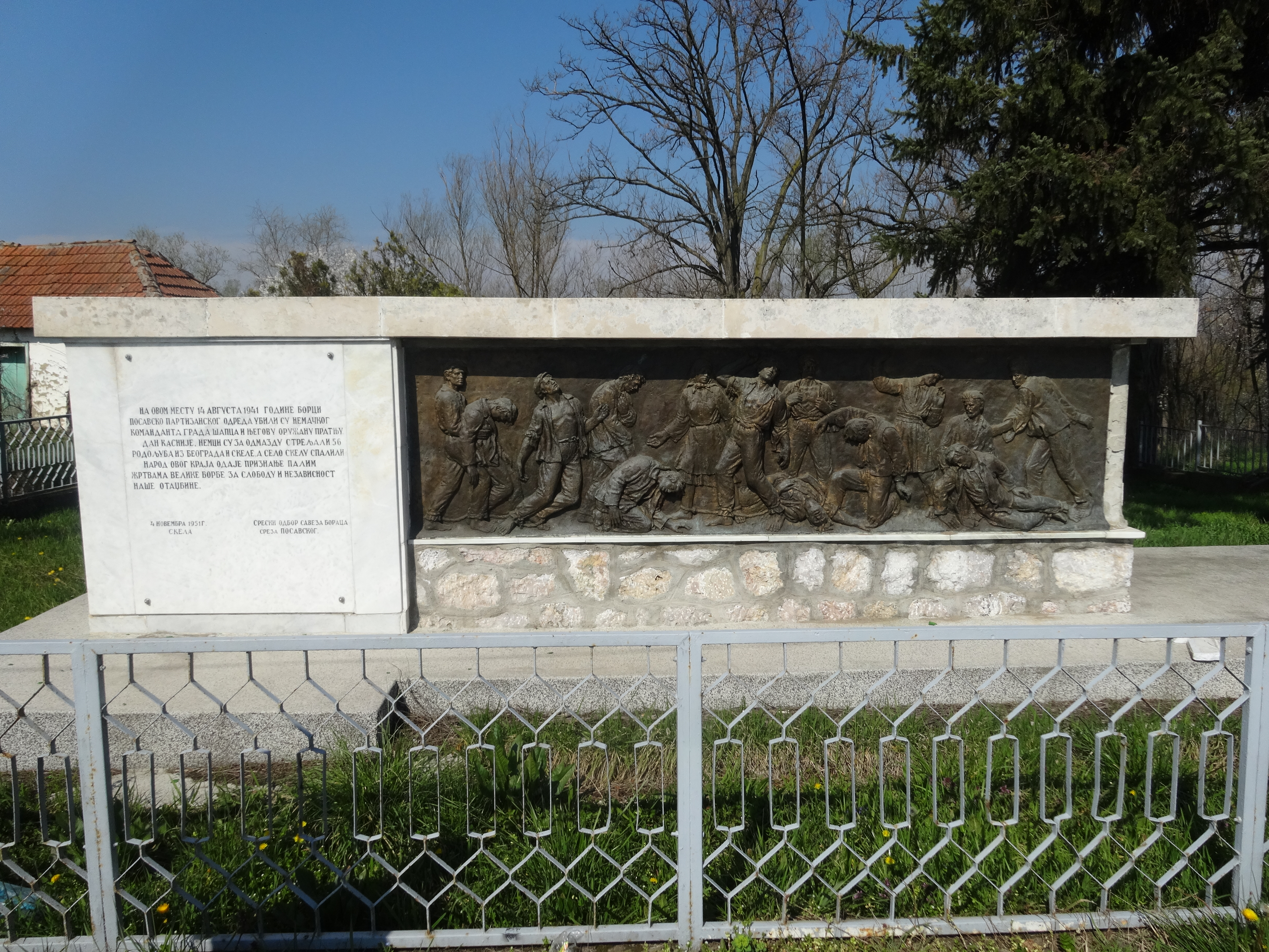 Skela, Monument to the executed hostages Српски (ћирилица): Скела, Споменик стрељаним таоцима